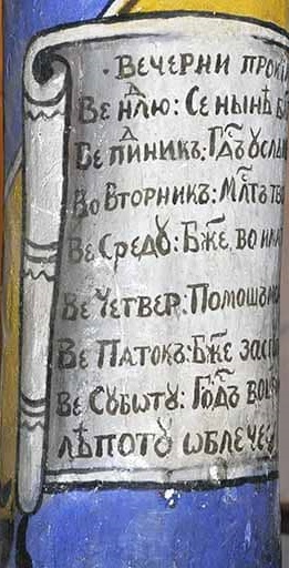 Saint Demetrius Church in Pancharevo Inscription